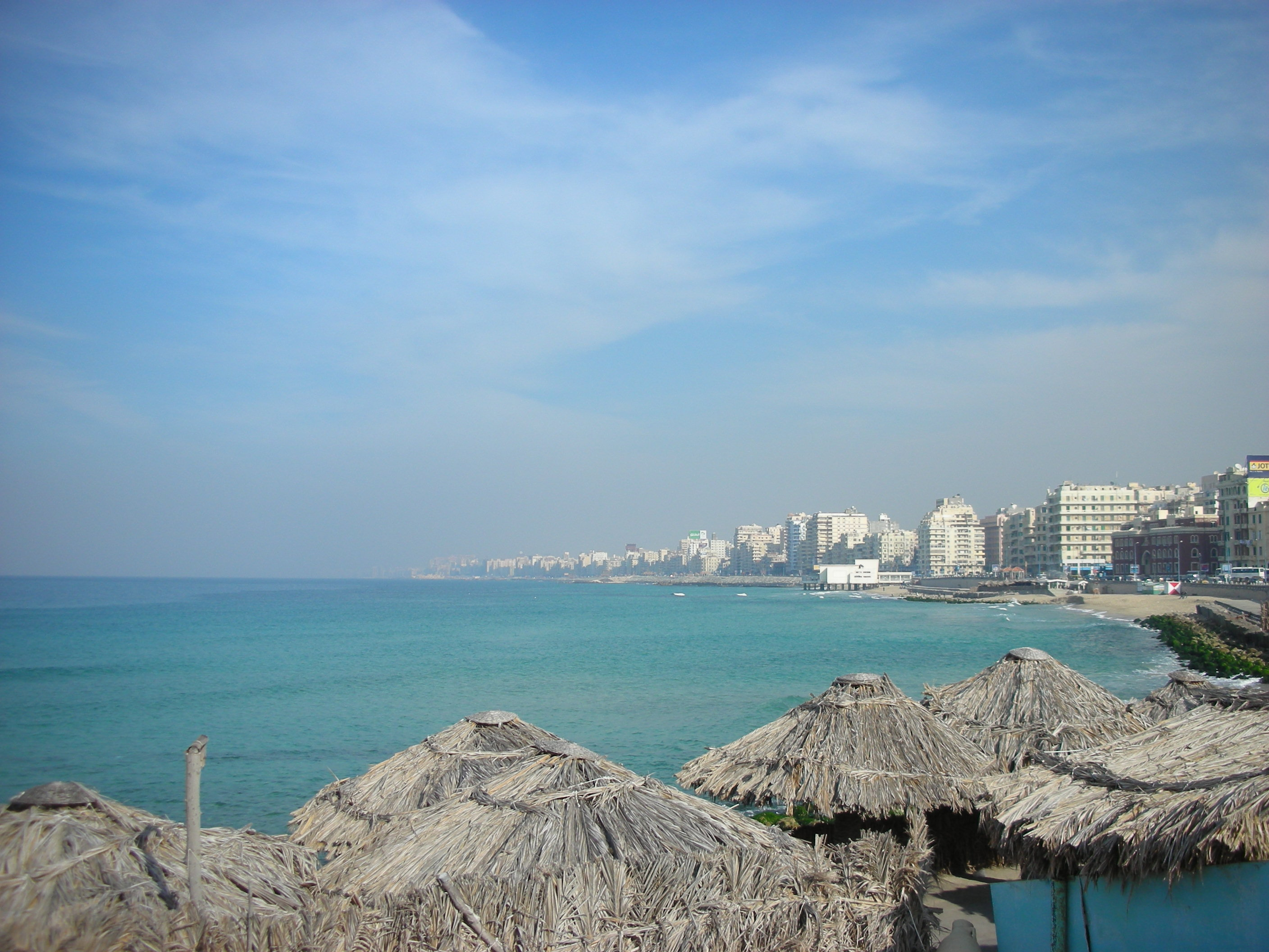 View of the coastline of Alexandria in Egypt during the summer